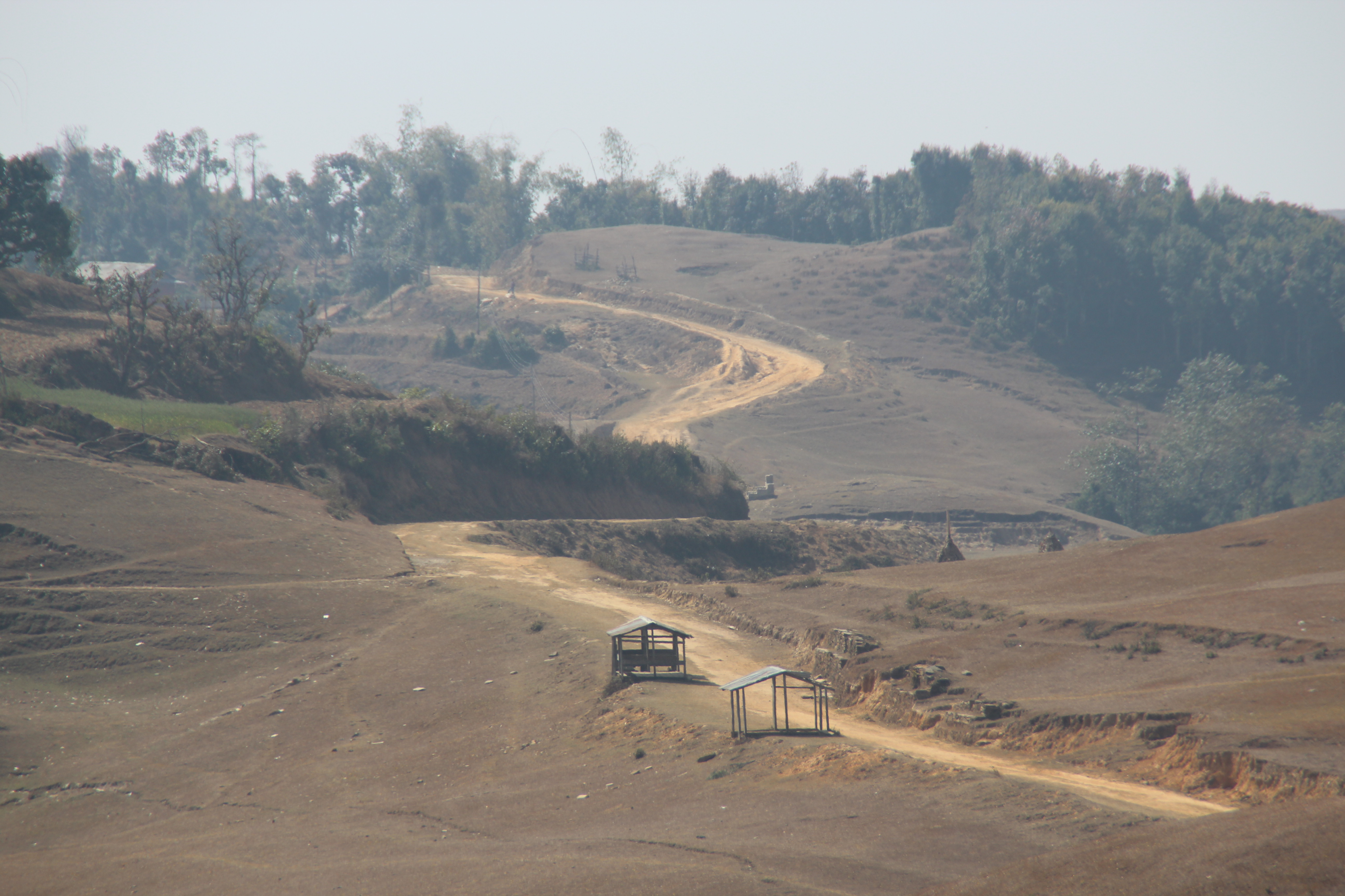 Picture taken from near Tinchule jungle. Road going towards Balankha